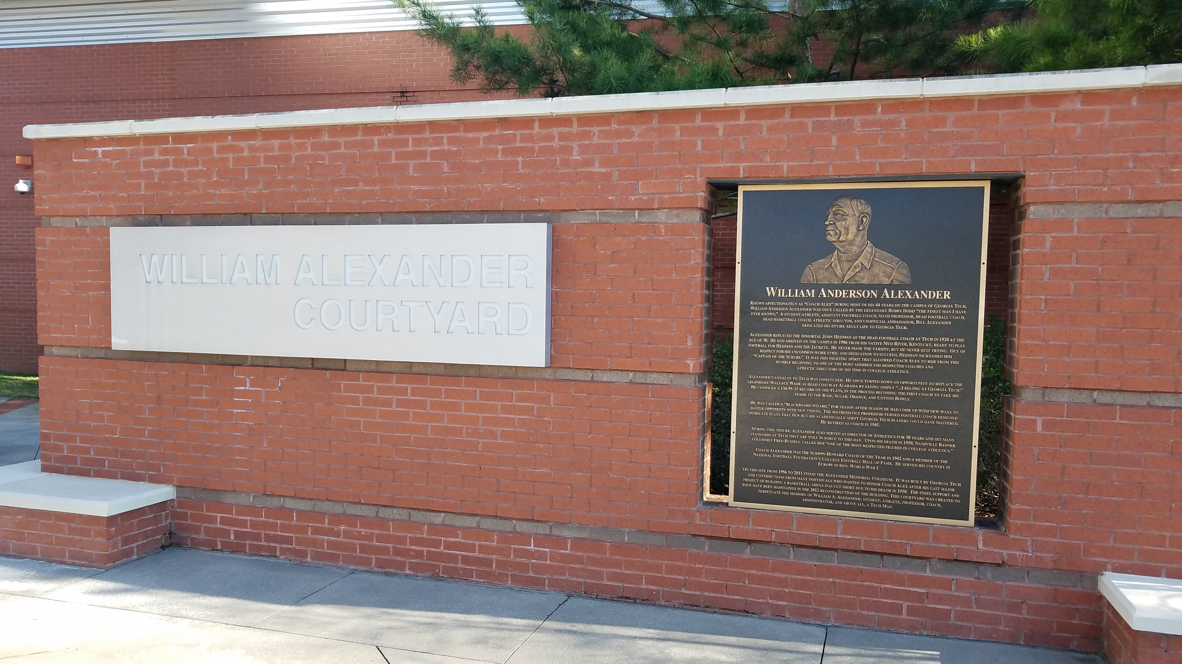 William Alexander Courtyard, located outside the west entrance of McCamish Pavilion on the main campus of the Georgia Institute of Technology in Atlanta, Georgia.